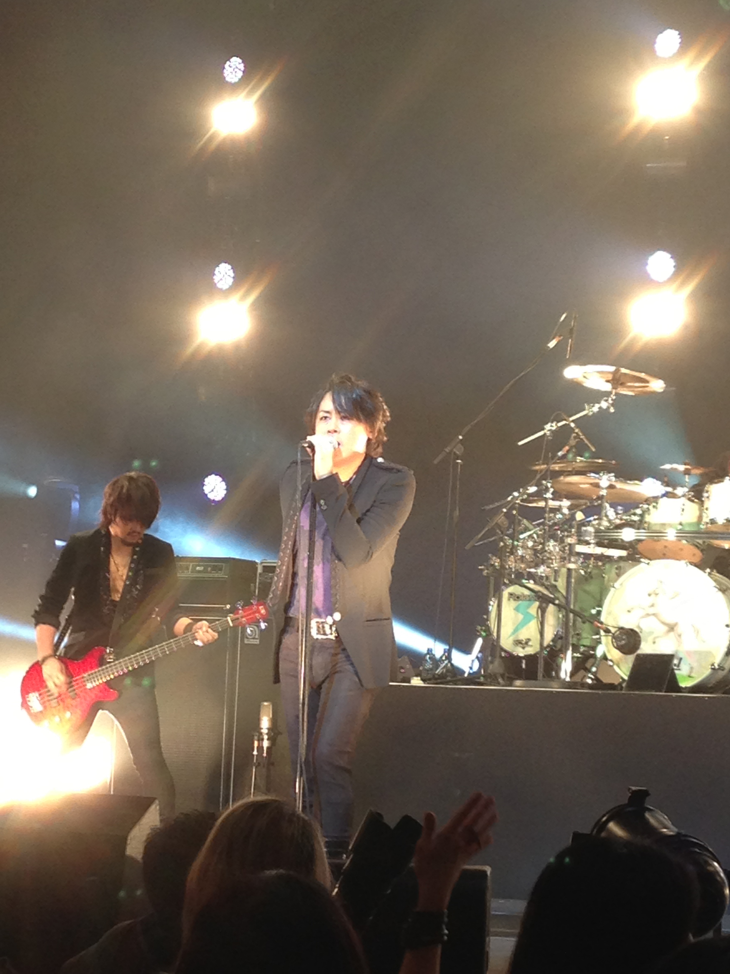 LUNA SEA members Ryuichi and J performing in Singapore on February 8, 2013.